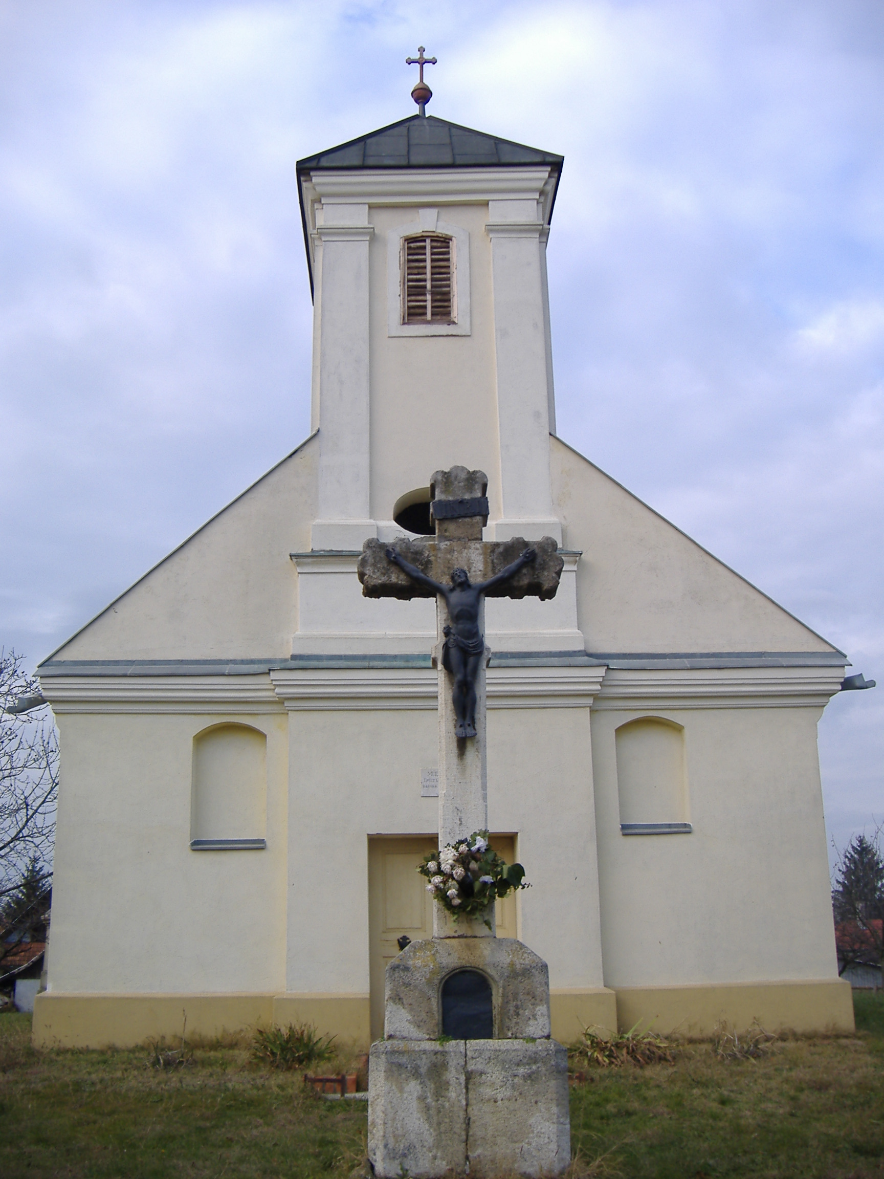 The Kálvária Chapel in Makó, Hungary.